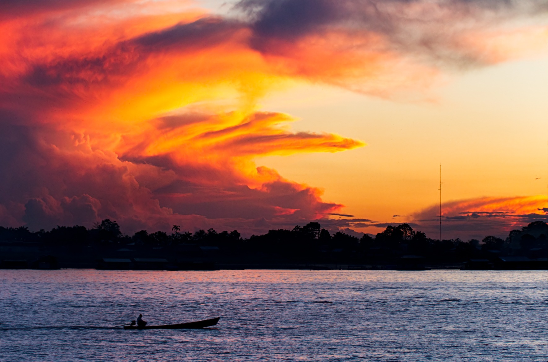 Beautiful sunset over the Amazon river near Leticia, Colombia